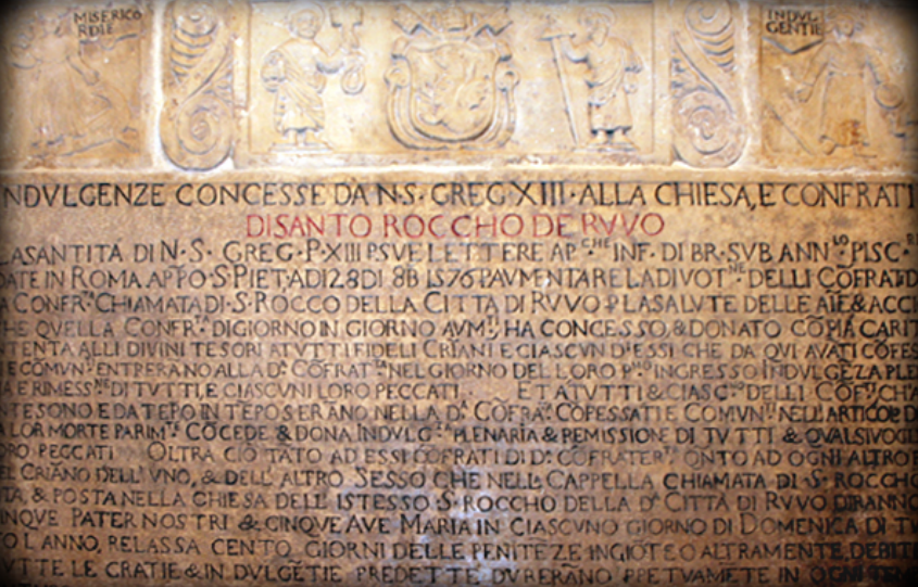 Iscrizione muraria chiesa san Rocco Ruvo